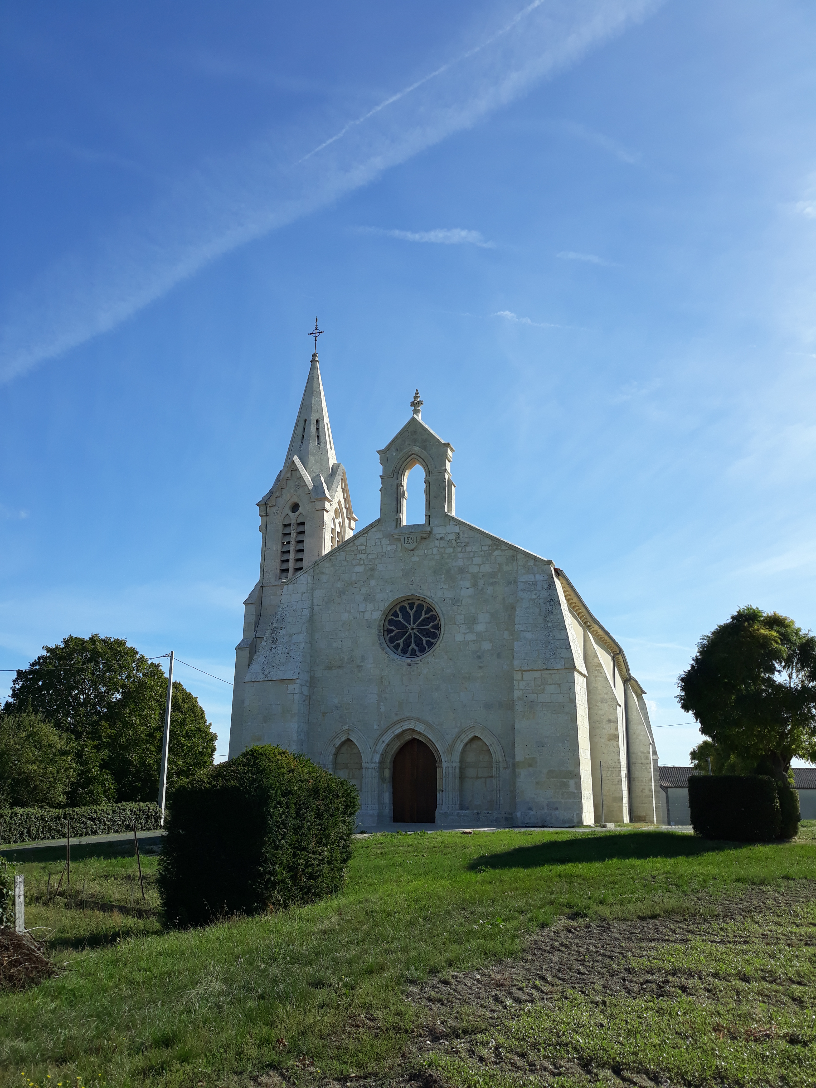 Church of Brie-Sous-Archiac (Charente-Maritime, France) in 2018 after renovation.